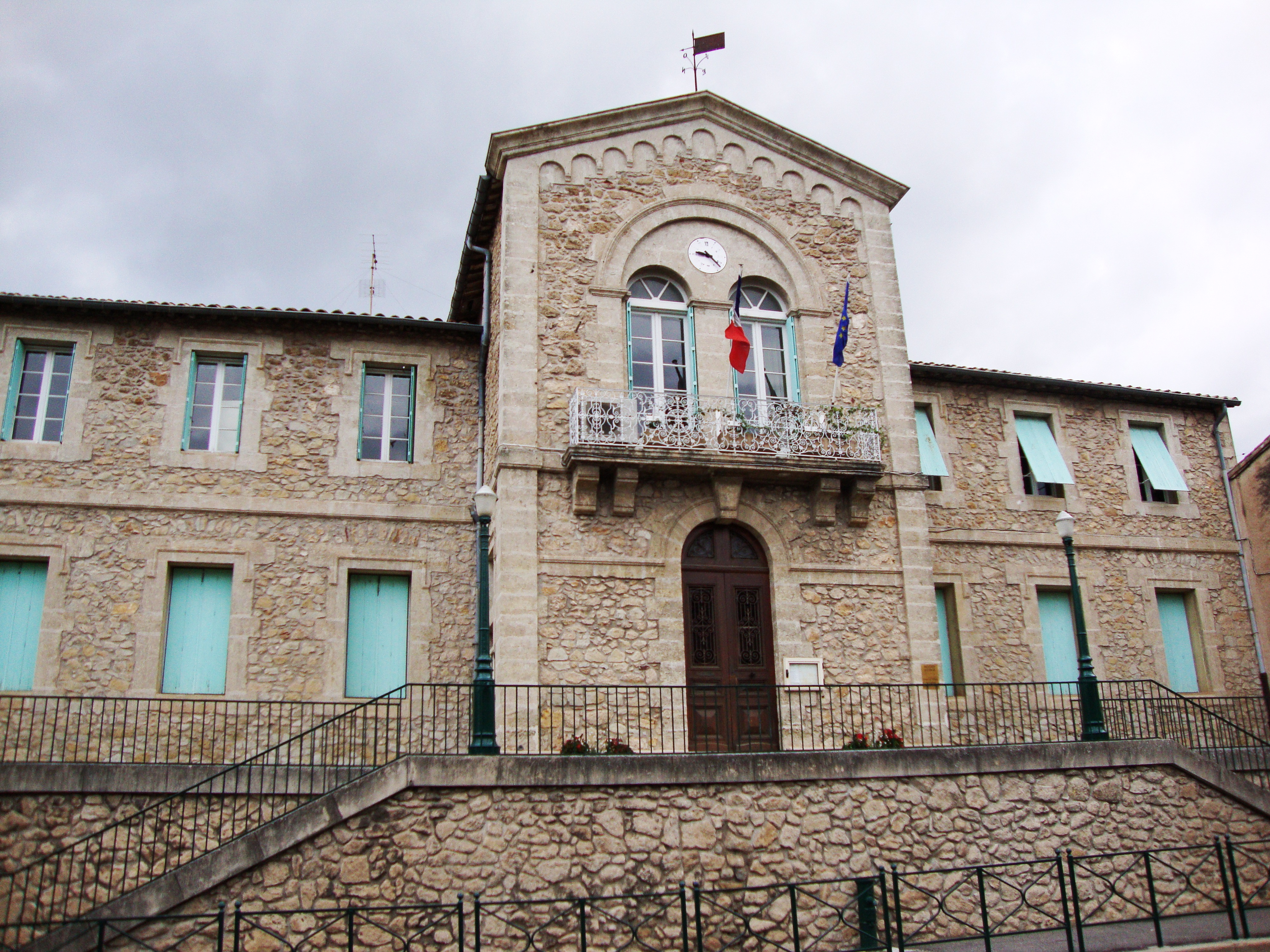 Saint-Félix-de-Lodez (Hérault, Fr) town hall.